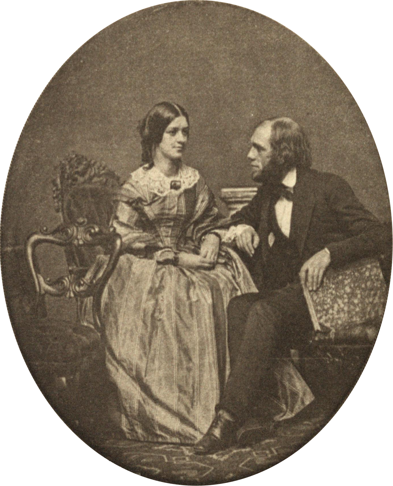 Photographic portrait of siblings Susan Hale and Edward Everett Hale